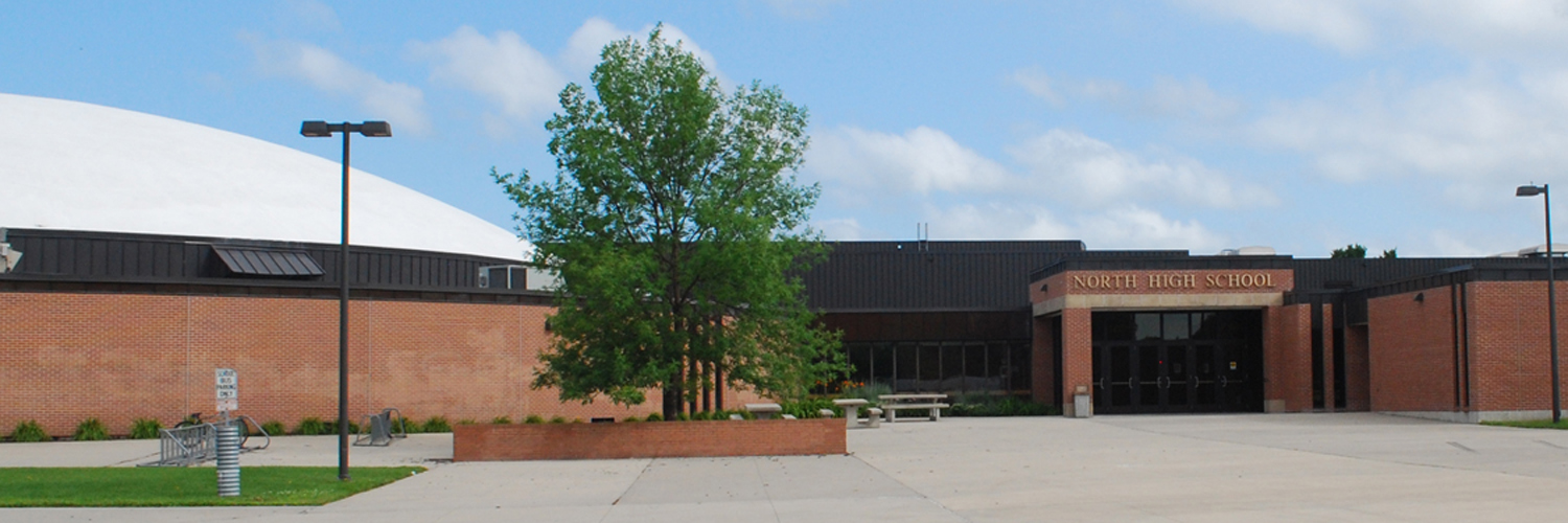 North High School, located in Fargo, ND; as seen from the south entrance to the school building.